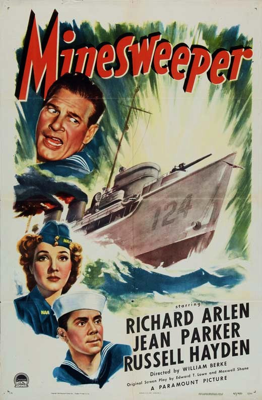 Poster from Minesweeper